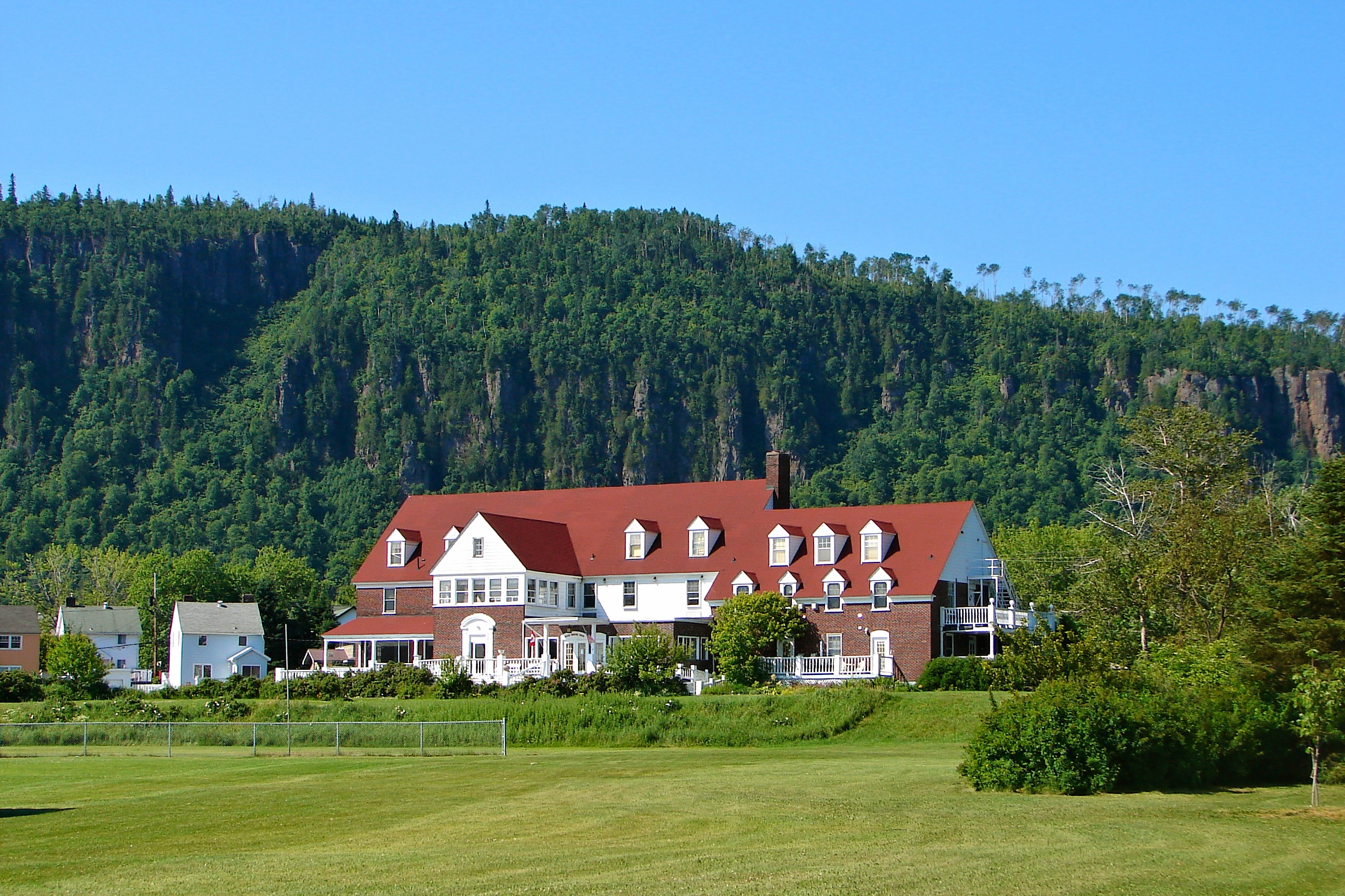 Red Rock, Thunder Bay District, Ontario, Canada